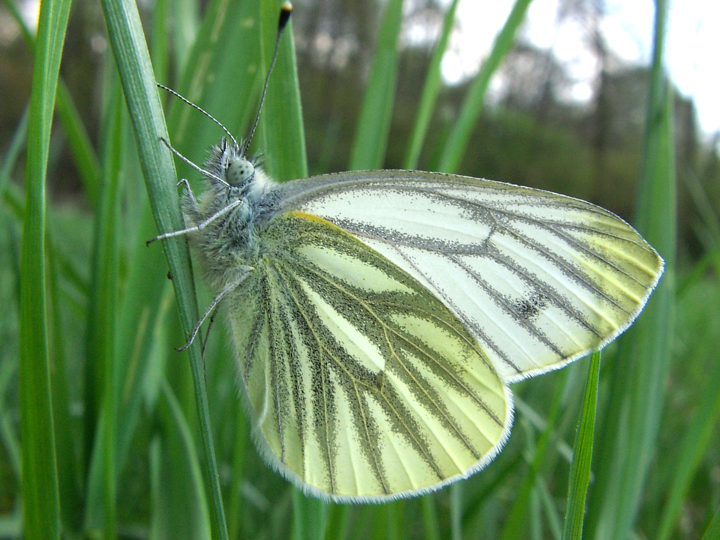 Pieris napi Photographed by Bogdan Janus, near Łódź.